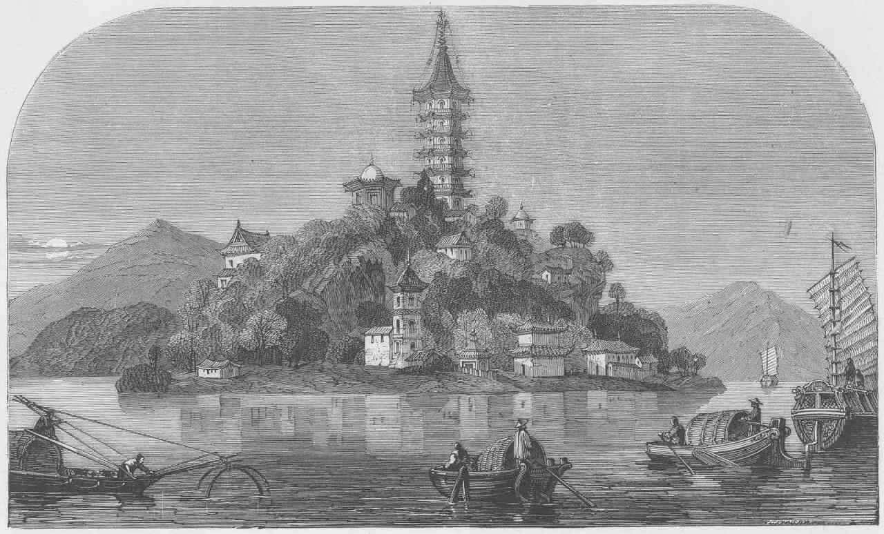 Golden Island, on The Yang-Tse River, China (LMS, 1869, p.64)